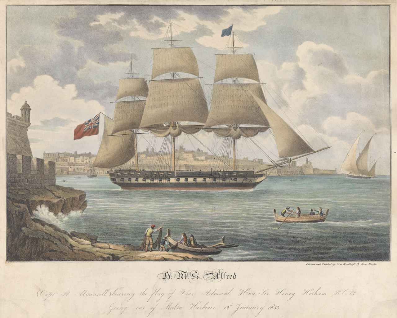 Alfred (1811) .... going out of Malta Harbour 12th January 1833 Hand-coloured lithograph. This print is one of a pair of lithographs (only one in NMM Collection). It shows the first landing of King Otho in Greece, with a view of HMS Alfred c1848. The picture shown is inscribed: ‘HMS Alfred (Capt R. Mounsell) bearing the flag of Vice Admiral Hon. Sir Henry Hotham KCB. Going out of Malta Harbour 12th January 1833.’ The ship is viewed from starboard side, with square rigging. Two of the main sails are furled, exposing the island of Malta in the background. She is flying a British Ensign. There are smaller sailing vessels on either side of the ship. In the foreground, there are two small fishing boats with men aboard, one reaching a rocky shore. In the Navy List for March 1833 Henry Hotham is recorded as Vice-Admiral of the Red and Flag Officer in commission in the Mediterranean; the date of his appointment is given as 30.3.1831. In the Navy List for June 1833, he is replaced by Vice-Admiral Sir Pulteney Malcolm. The Alfred was built of teak. She was broken up in 1865.